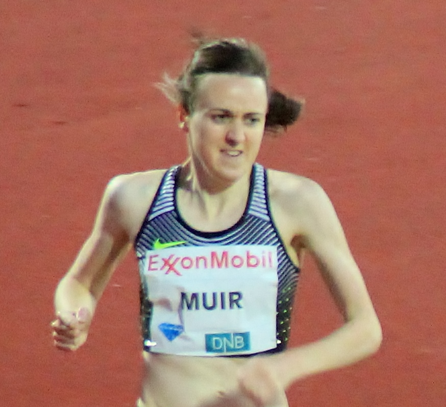 Laura Muir at the 2016 Bislett Games